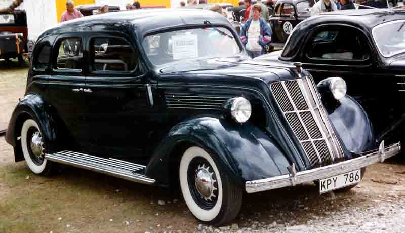 Nash 3640 400 4-Door Sedan (1936)